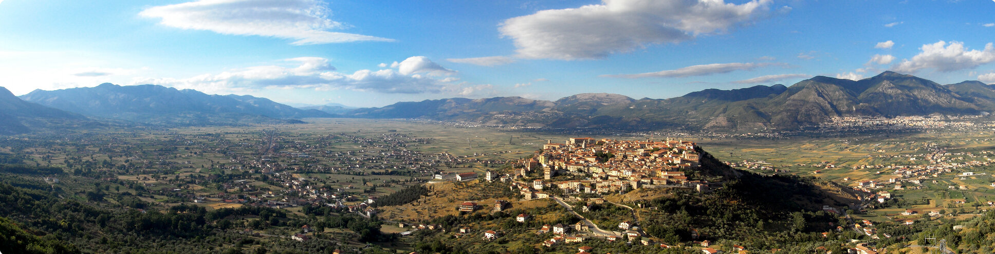 Teggiano and the Vallo di Diano (valley). In the Province of Salerno in Campania, southern Italy}. Located within Cilento and Vallo di Diano National Park, and a World Heritage Site.